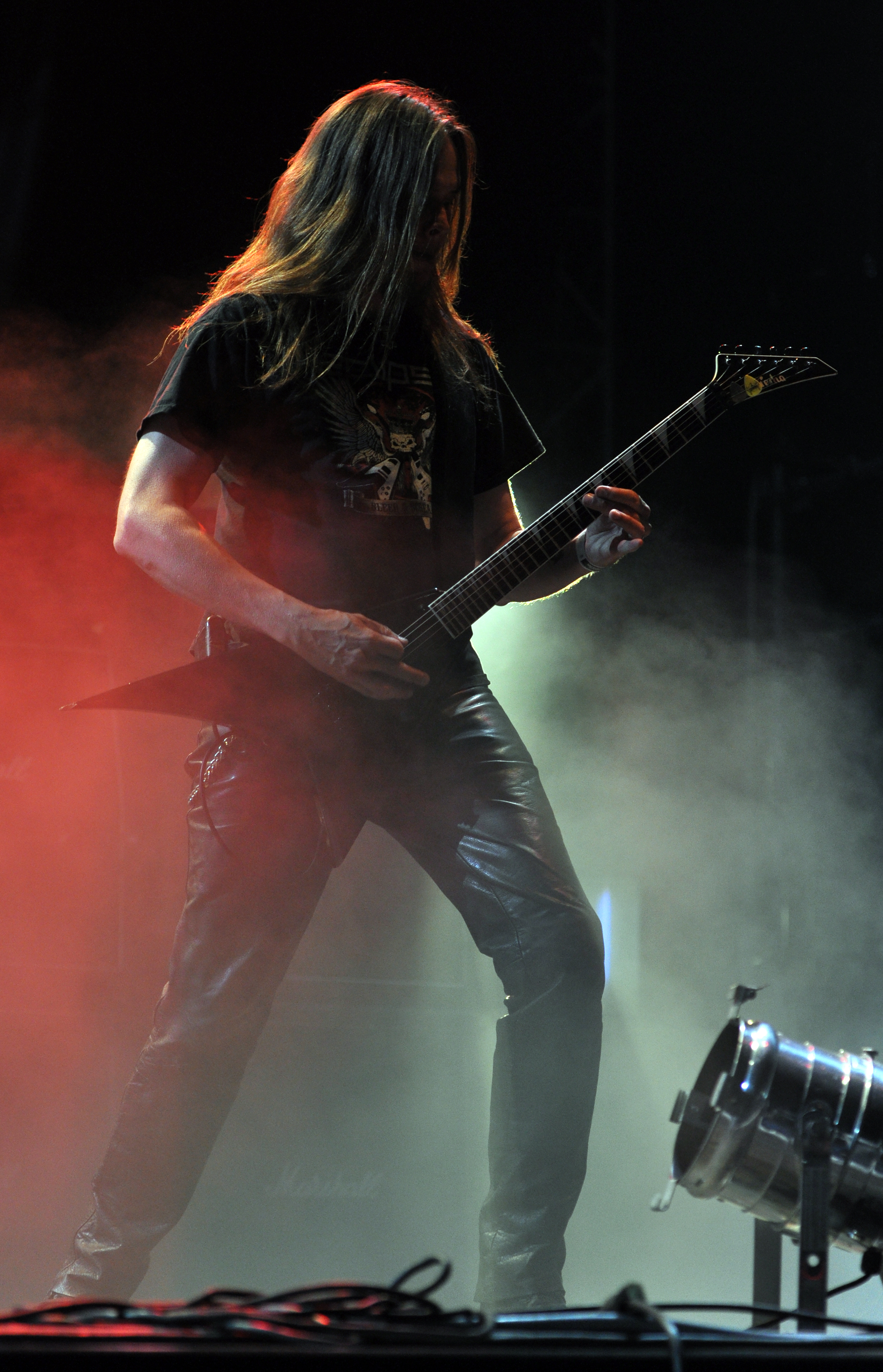 Unleashed at Party.San Metal Open Air 2013